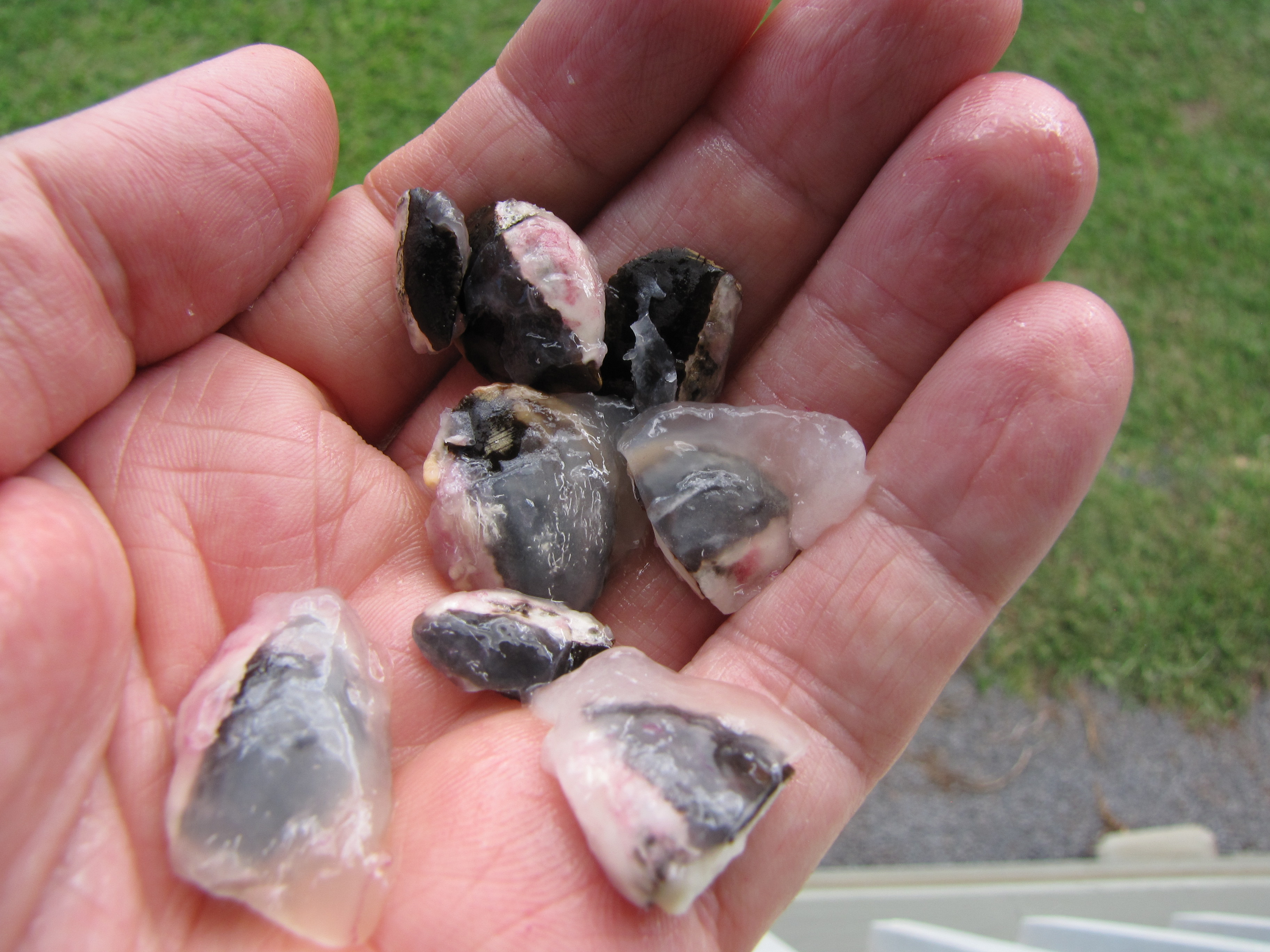 Chrysophyllum cainito (Star apple) Seeds at Olinda, Maui, Hawaii. March 10, 2011 #110310-3059 Image Use Policy